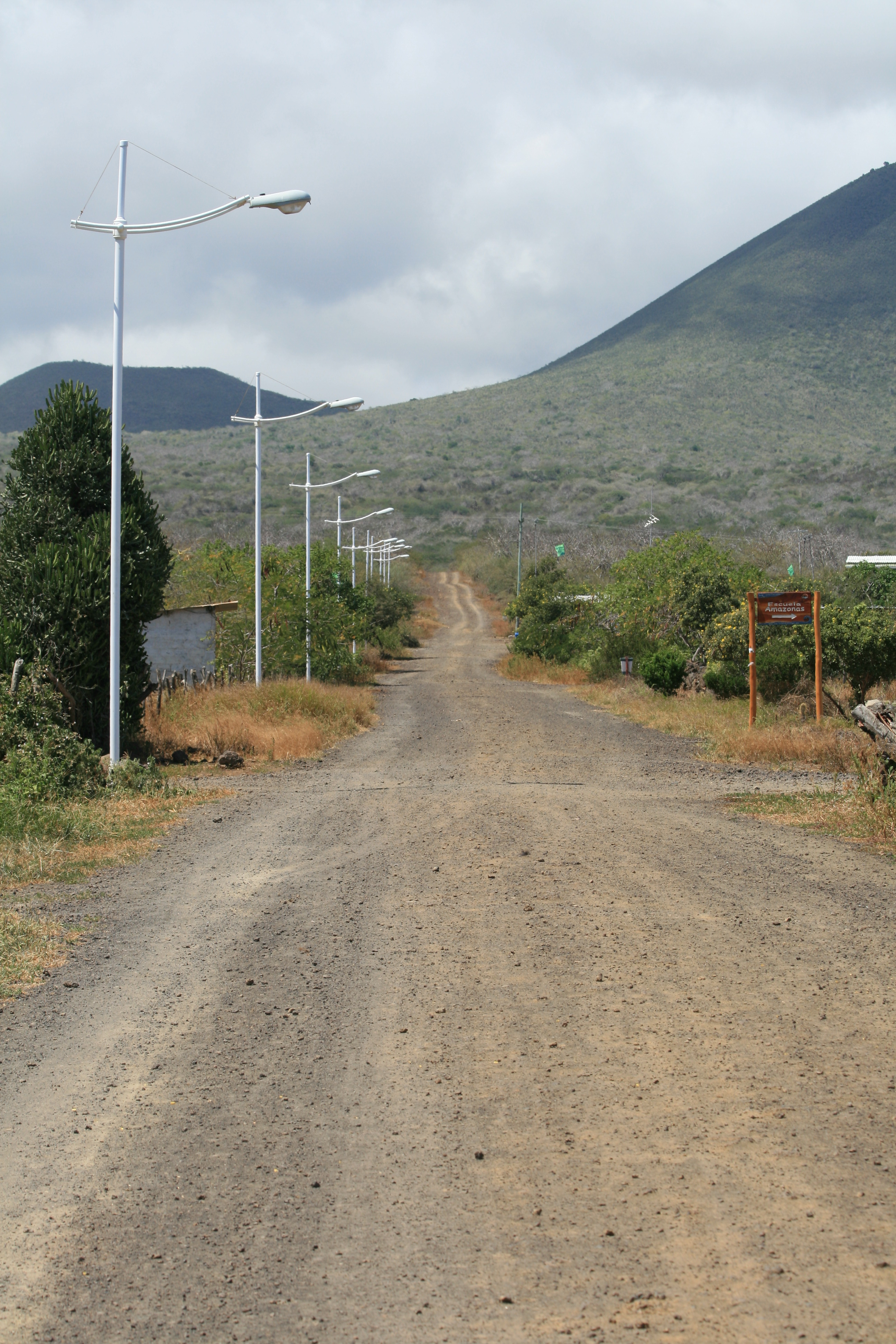 Lonely road